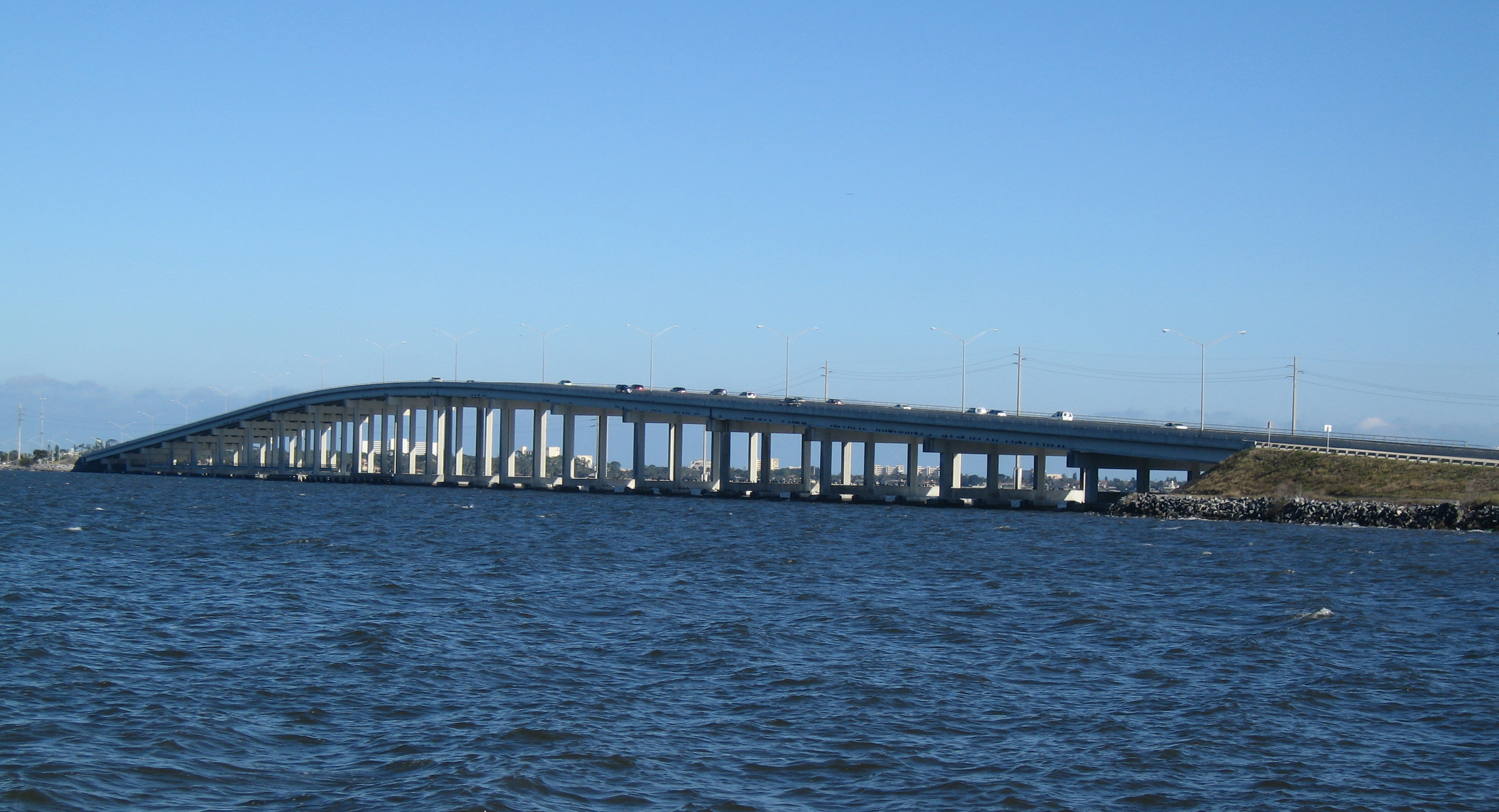 Eau Gallie Causeway is a bridge in Brevard County, Florida between Eau Gallie and Indian Harbour Beach over the Indian River. This photograph was taken at the Eau Gallie Pier behind the Eau Gallie Public Library to the north of the bridge on the Eau Gallie side (west) of the river.